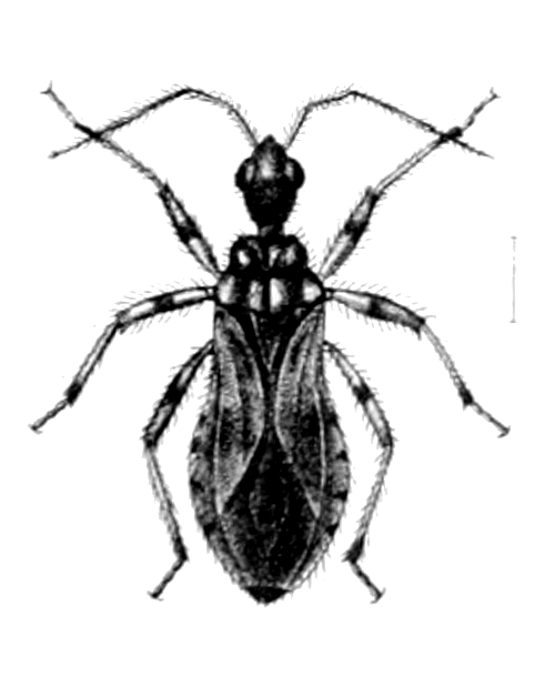 Dorsal view of Reduvius laniger Butler (= Peregrinator biannulipes (Montrouzier, 1861)).